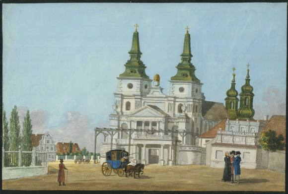 Poznań Cathedral by Alberti